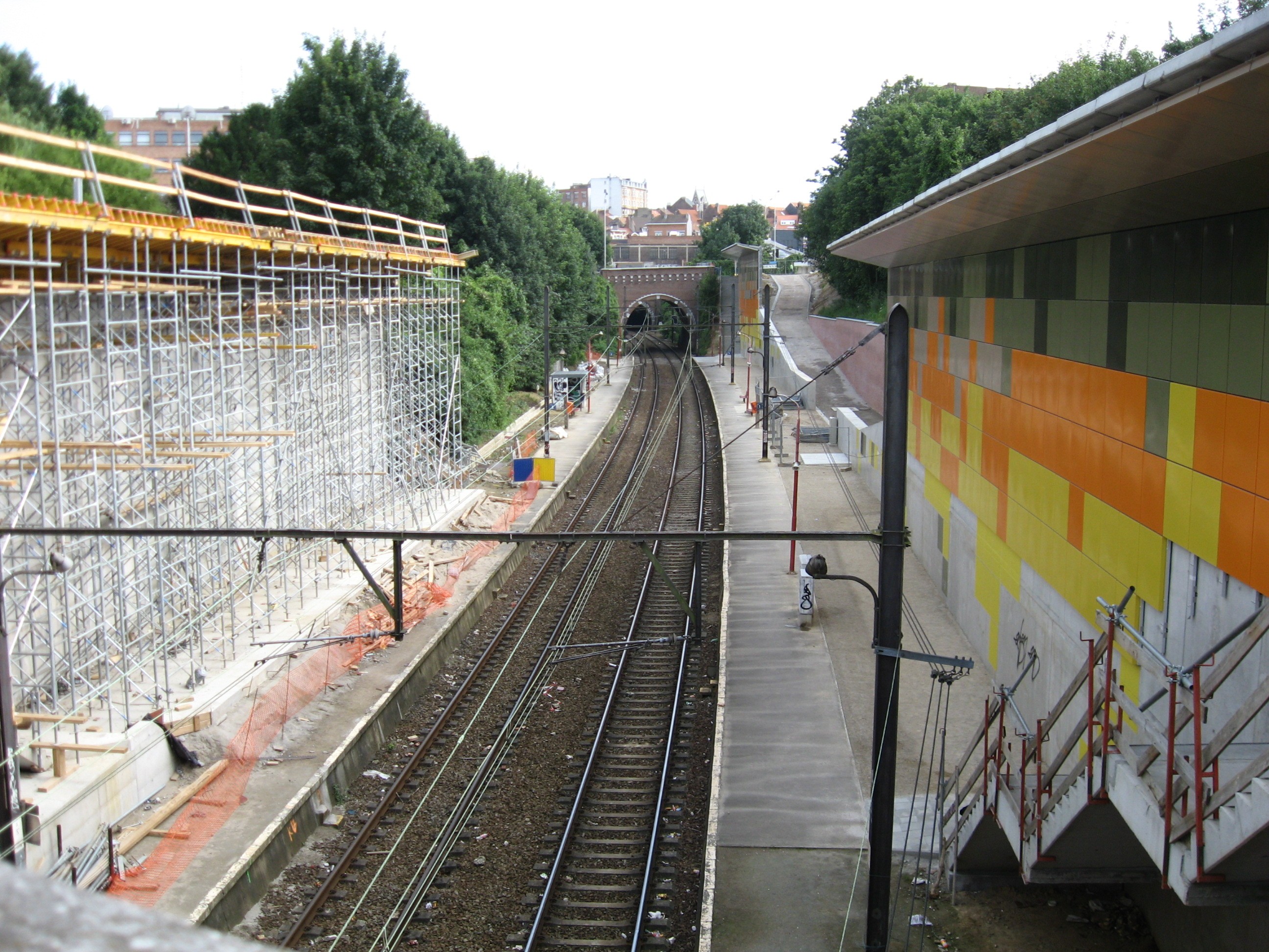 Station Meiser on the railway line 26.